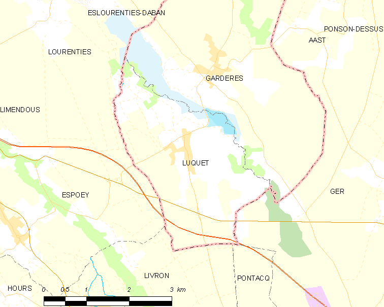 Map of French municipality